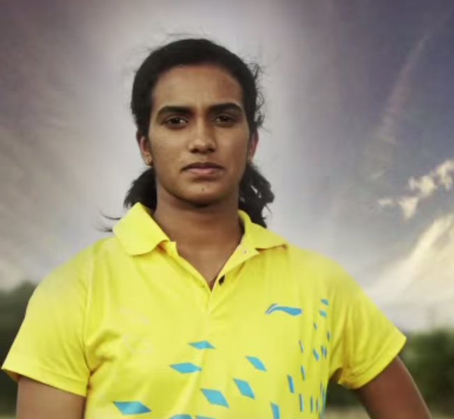 Screenshot of P.V. Sindhu from a video made before Commonwealth Games 2014